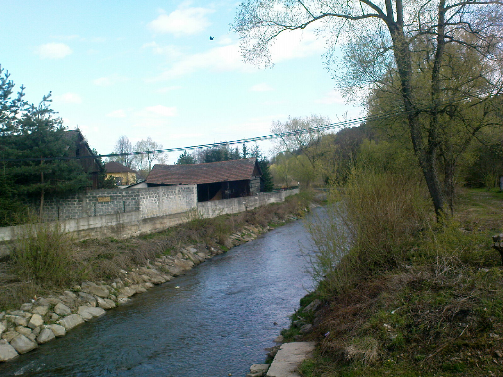 Harbutówka river in Sułkowice